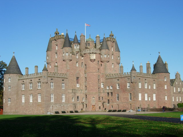 Glamis Castle. Glamis Castle has associations with 'Macbeth' and was the birthplace of the Queen Mother